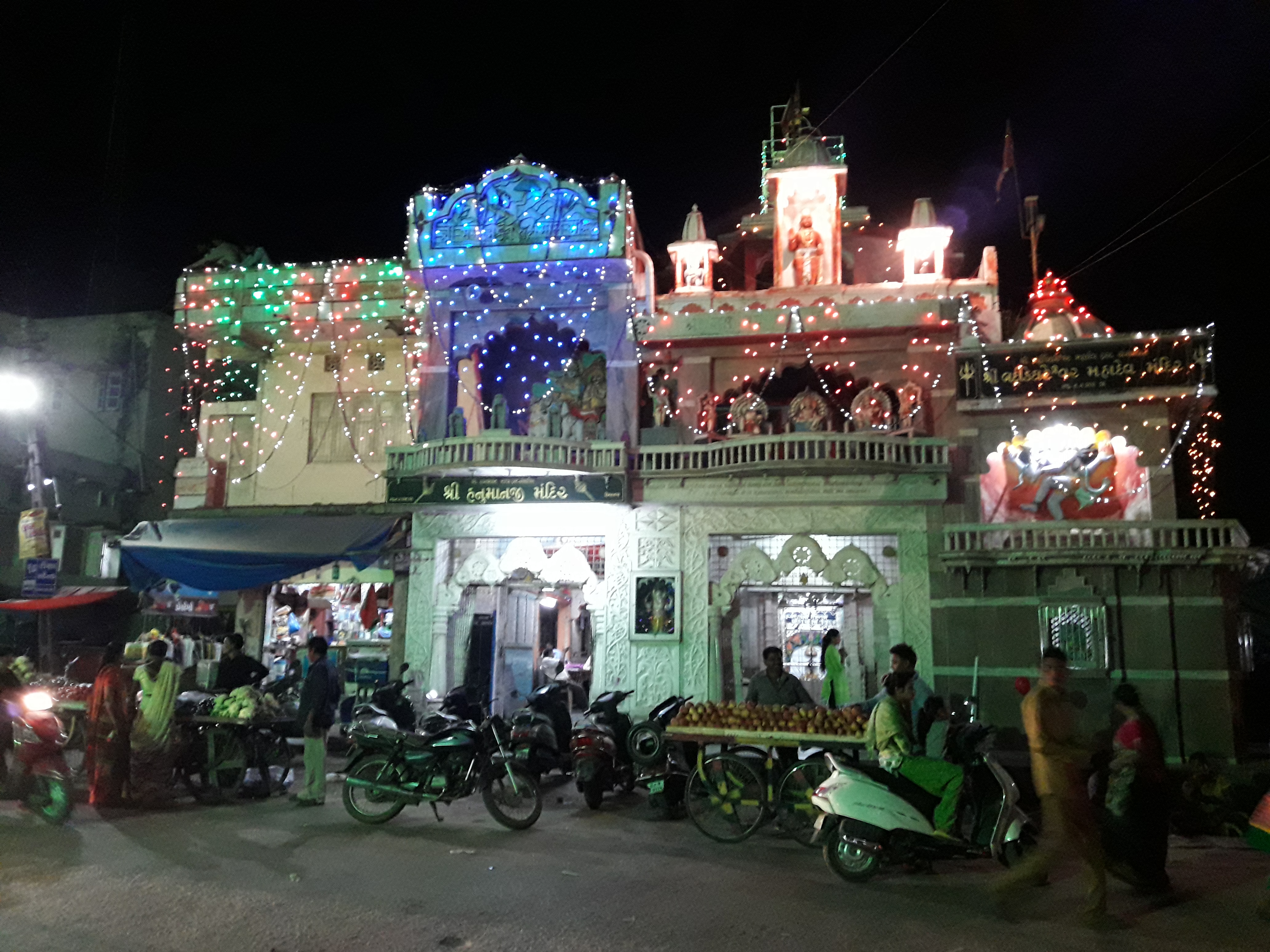 Hanumanji Temple in Himmatnagar located at Tower Chok